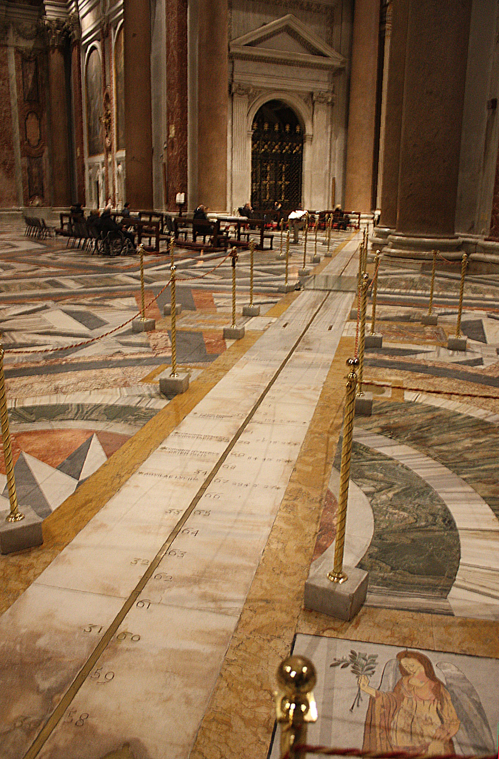 Rome, the church S. Maria degli Angeli e dei Martiri, the meridian